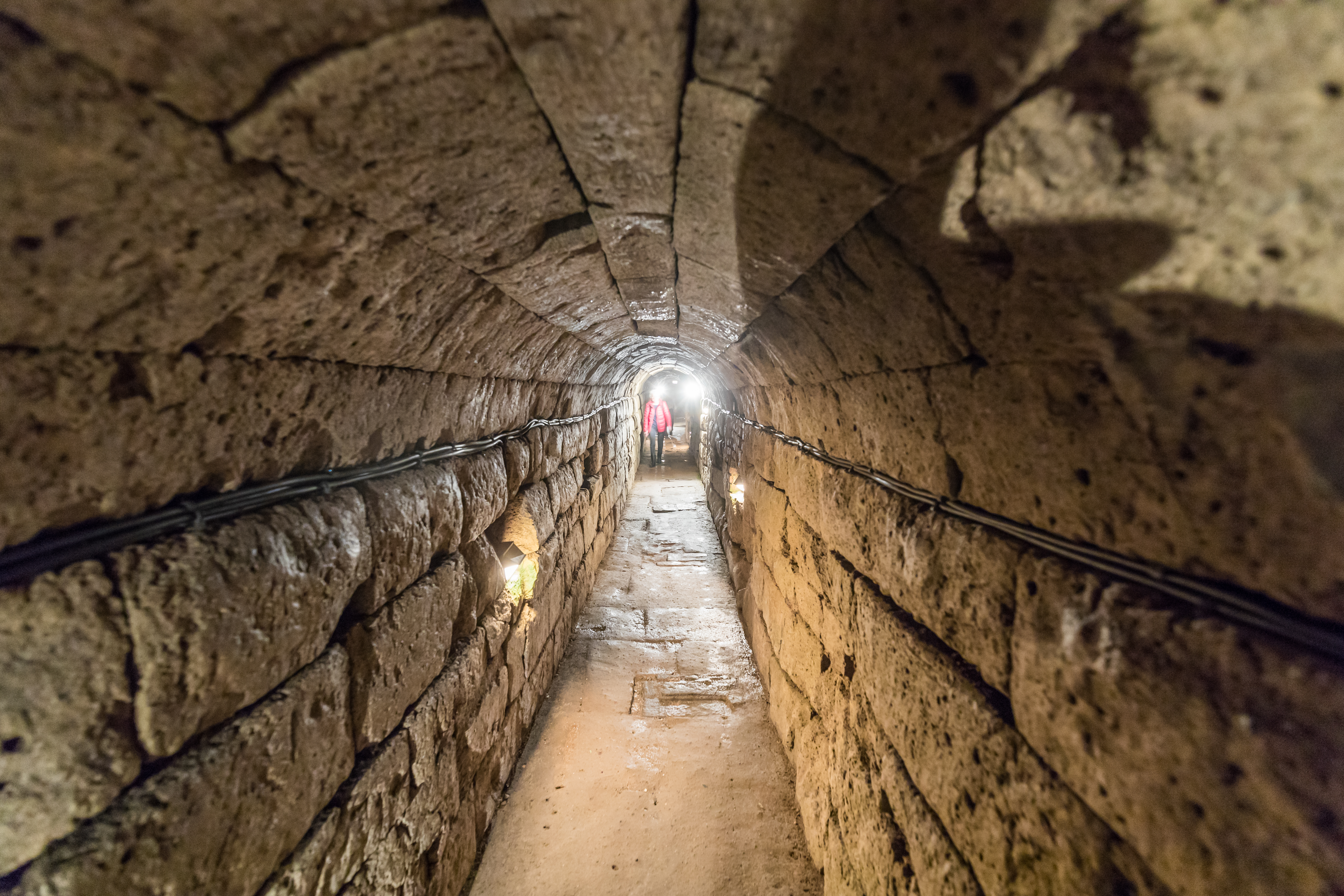 Roman sewer tunnel in Cologne